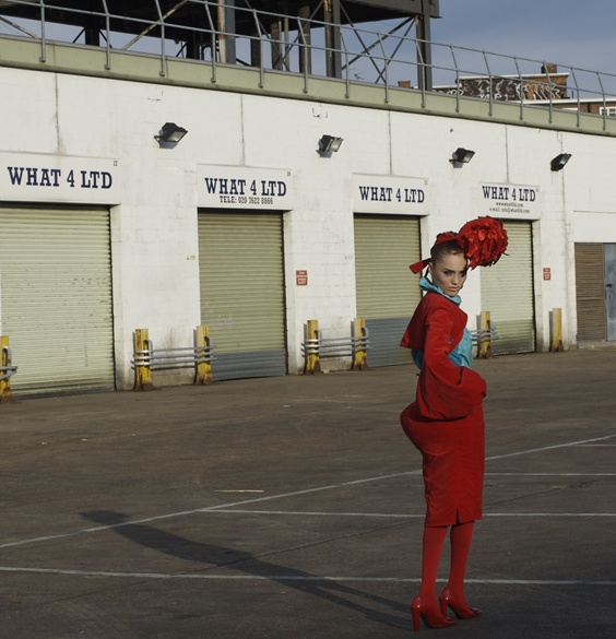 Stylist : Linda Charoenlab Hair Stylist: Mari Ohashi Make Up Artist: Reno Model: Jess @ ICM Photographic Assistance: Mia Morikawa